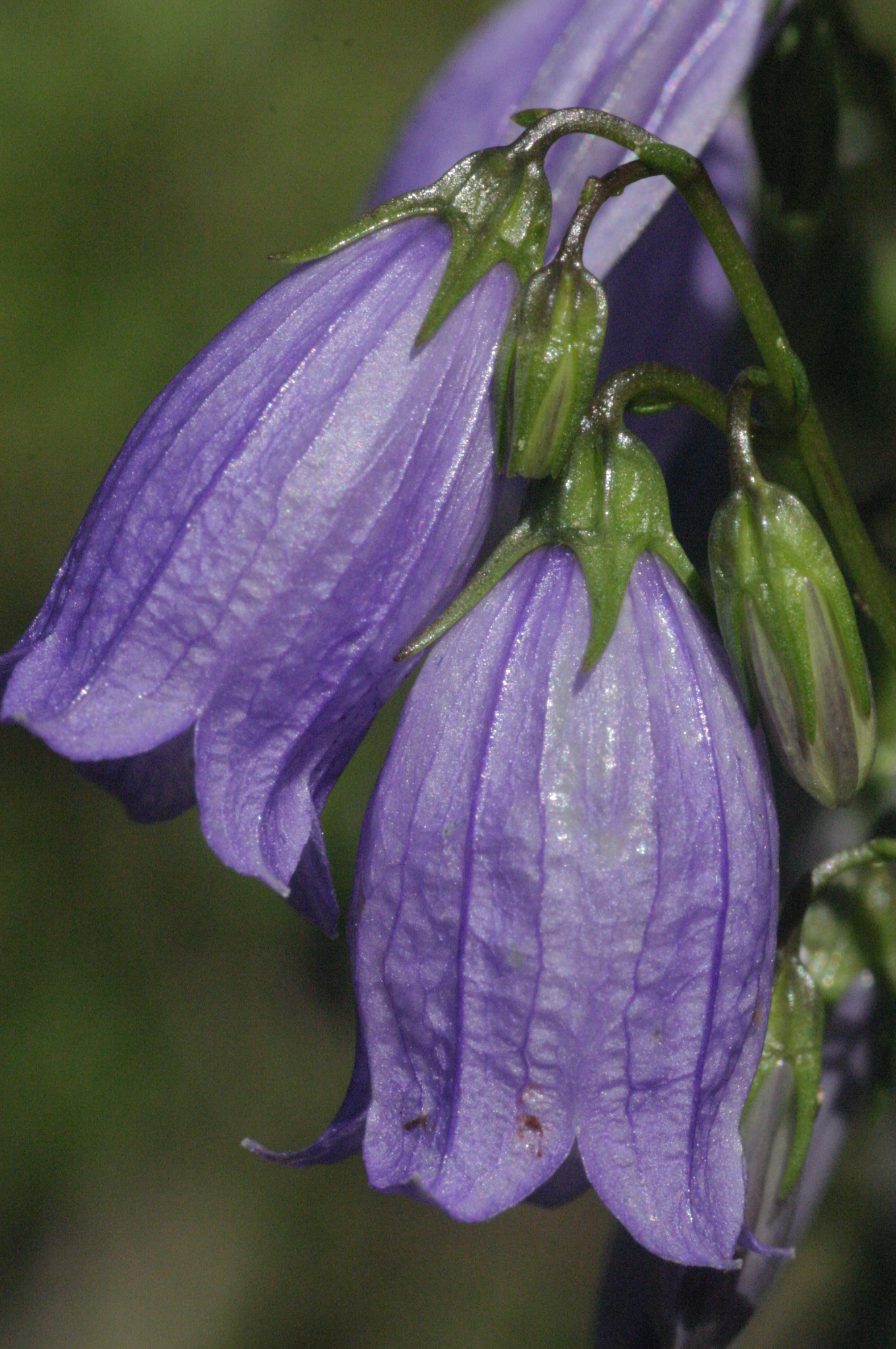 Campanula cespitosa